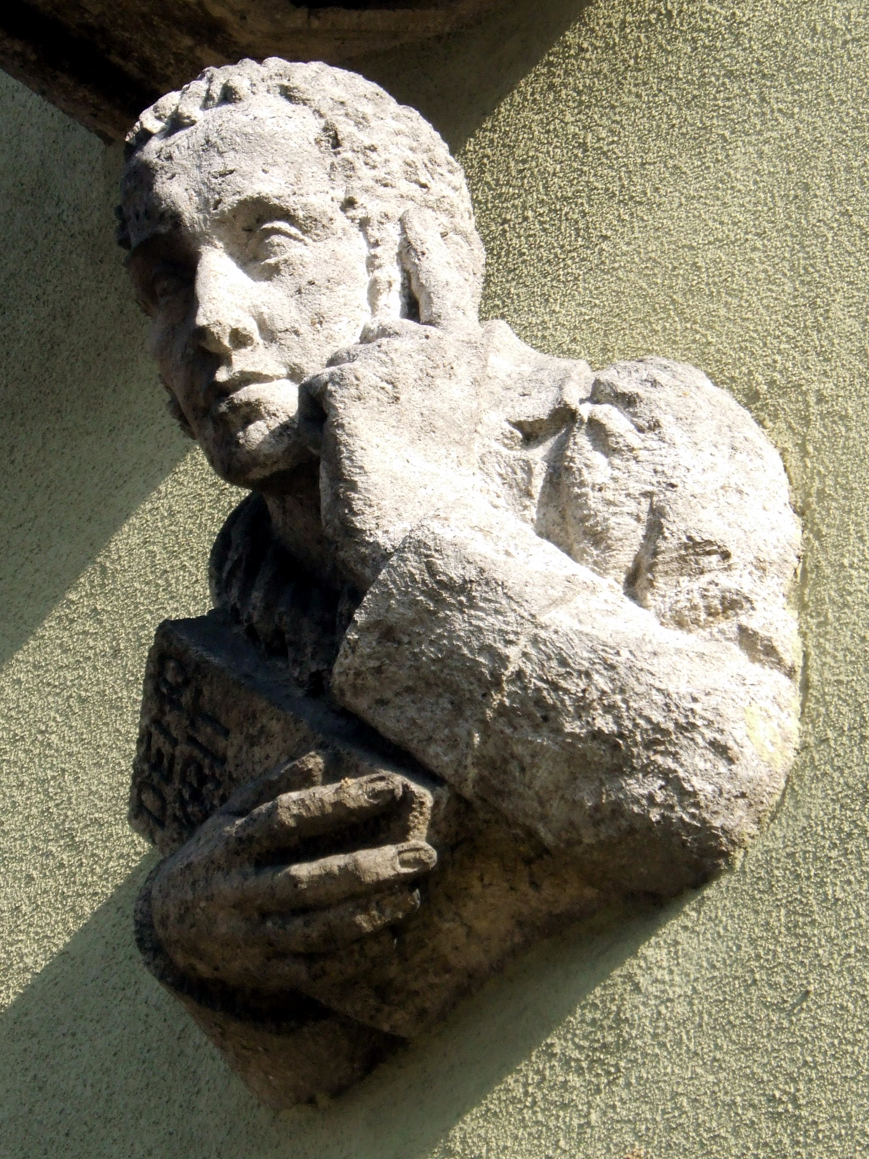 Karl Julius Weber: Sculpture in the style of a gargoyle on the facade of the Old School at Langenburg. (Watch the Demokritos in his right hand.)